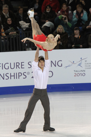 Maria Mukhortova and Maxim Trankov at the 2010 European Figure Skating Championships.